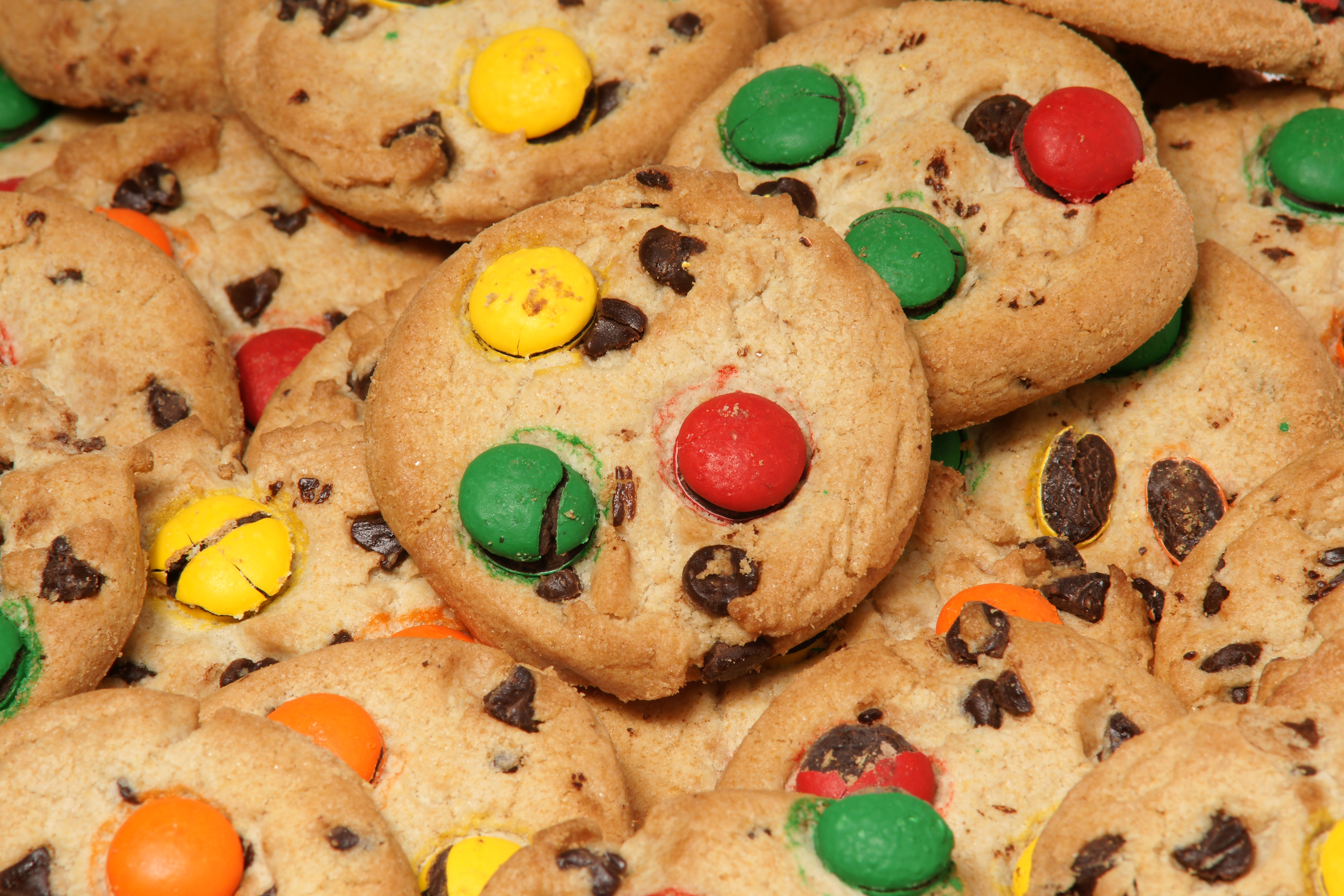 A pile of cookies from the Chips Deluxe Rainbow line, made by Keebler.